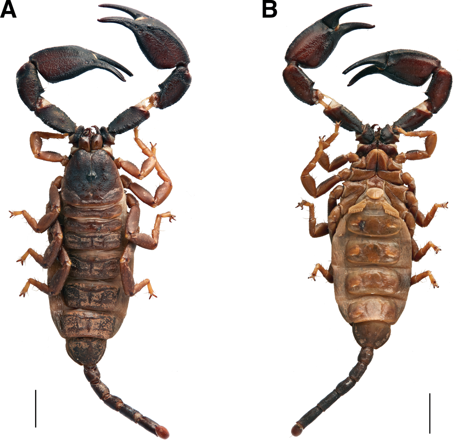 Figure 30; Ischnurus neocaledonicus Simon, 1877 [= Hormurus neocaledonicus (Simon, 1877)], female paratype, habitus A dorsal aspect B ventral aspect. Scale bars: 10 mm.